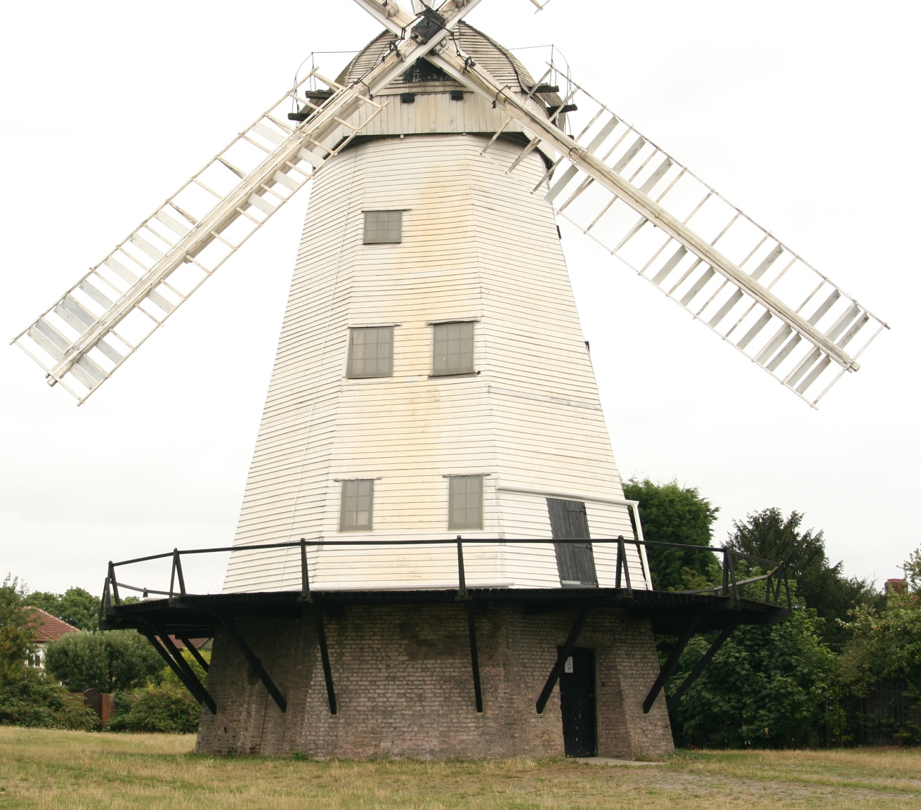 Photo of the Upminster Windmill. By Duncan Martin. Submitted by Max Smith. and released into the public domain.